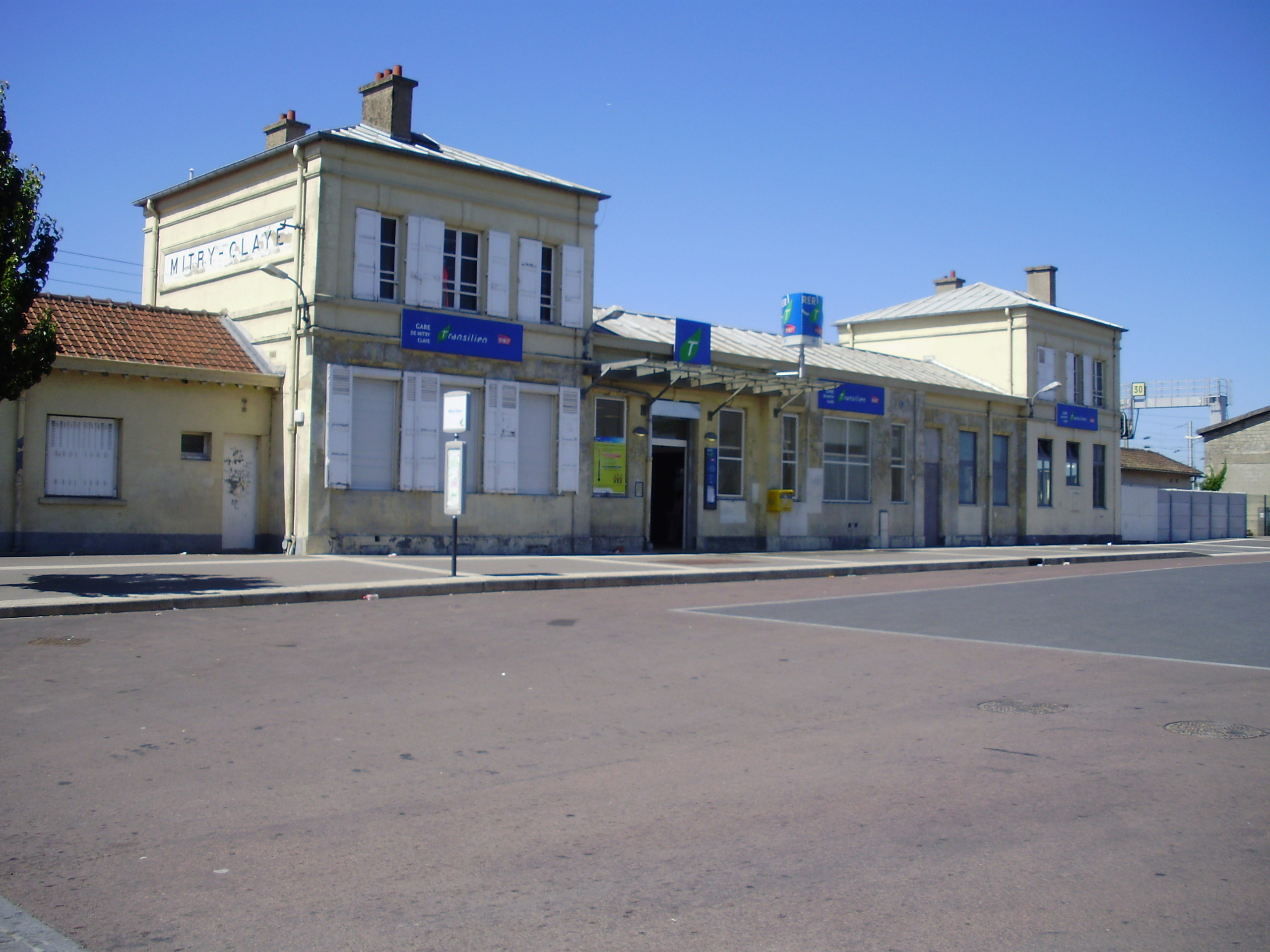 Mitry - Claye station, in Mitry-Mory, Seine-et-Marne, France